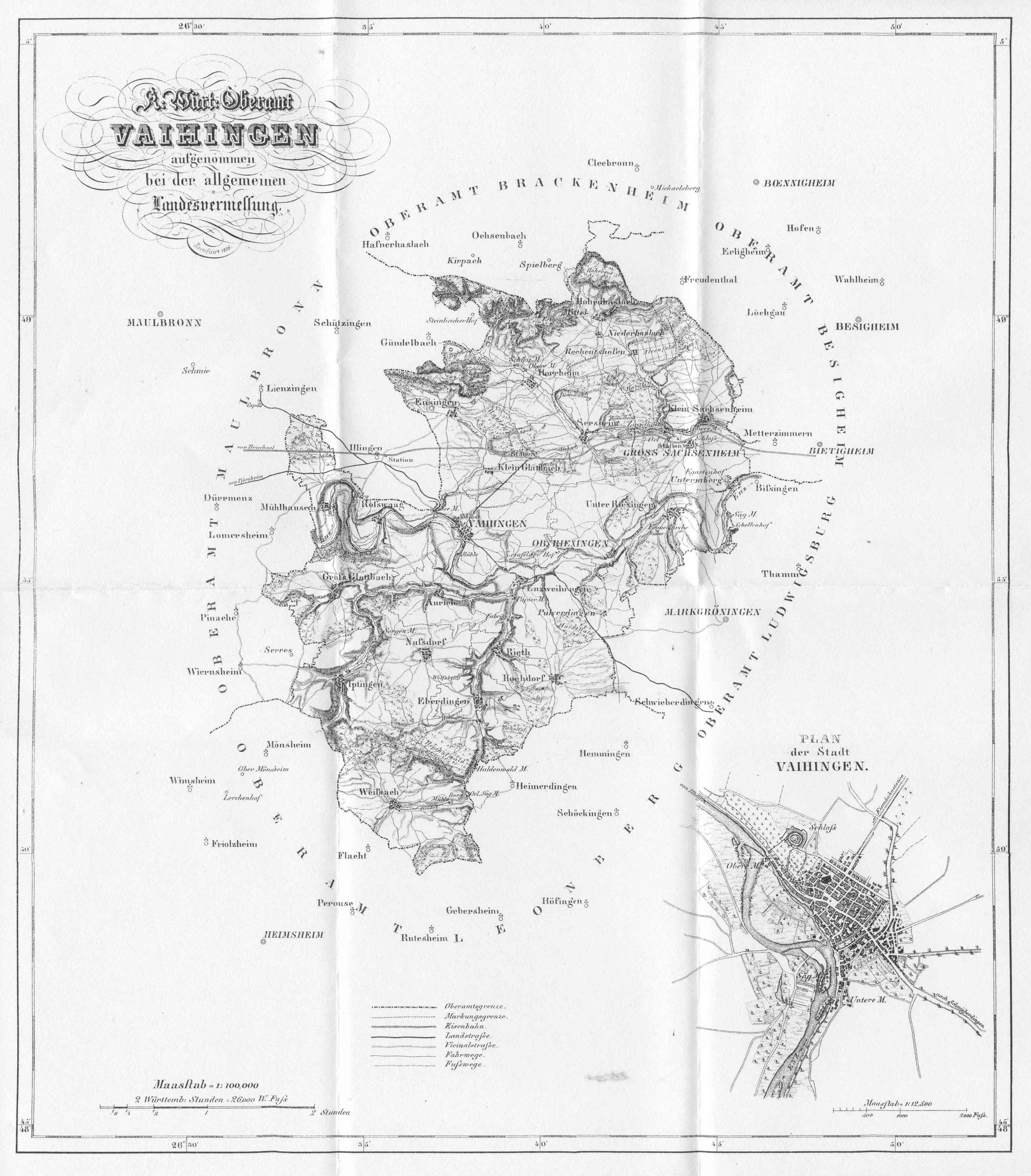 scan from a reprint of Beschreibung des Oberamts Vaihingen by Horst Bissinger KG Verlag und Druckerei, Magstadt